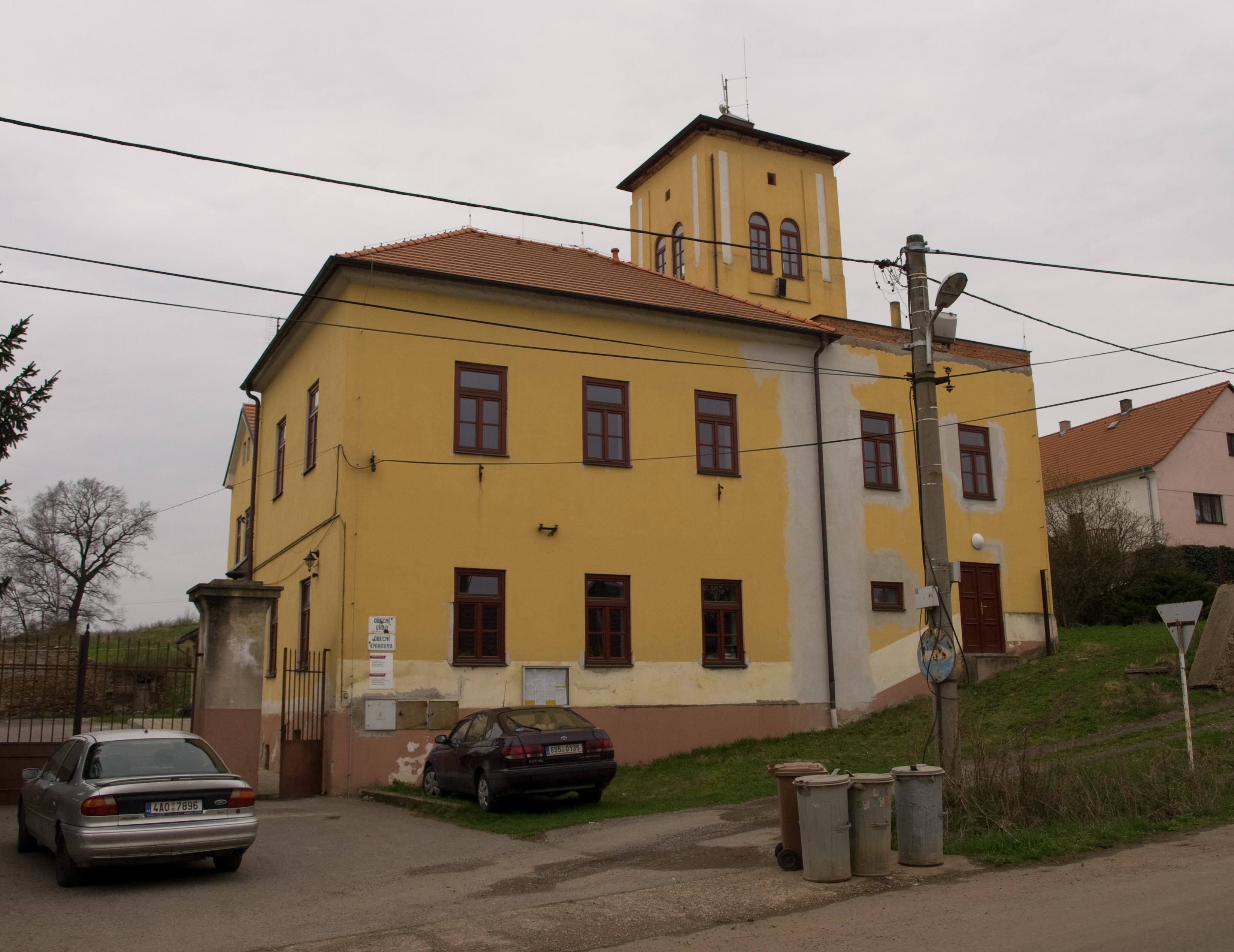 Kotopeky, Beroun District, Central Bohemian Region, Czech Republic